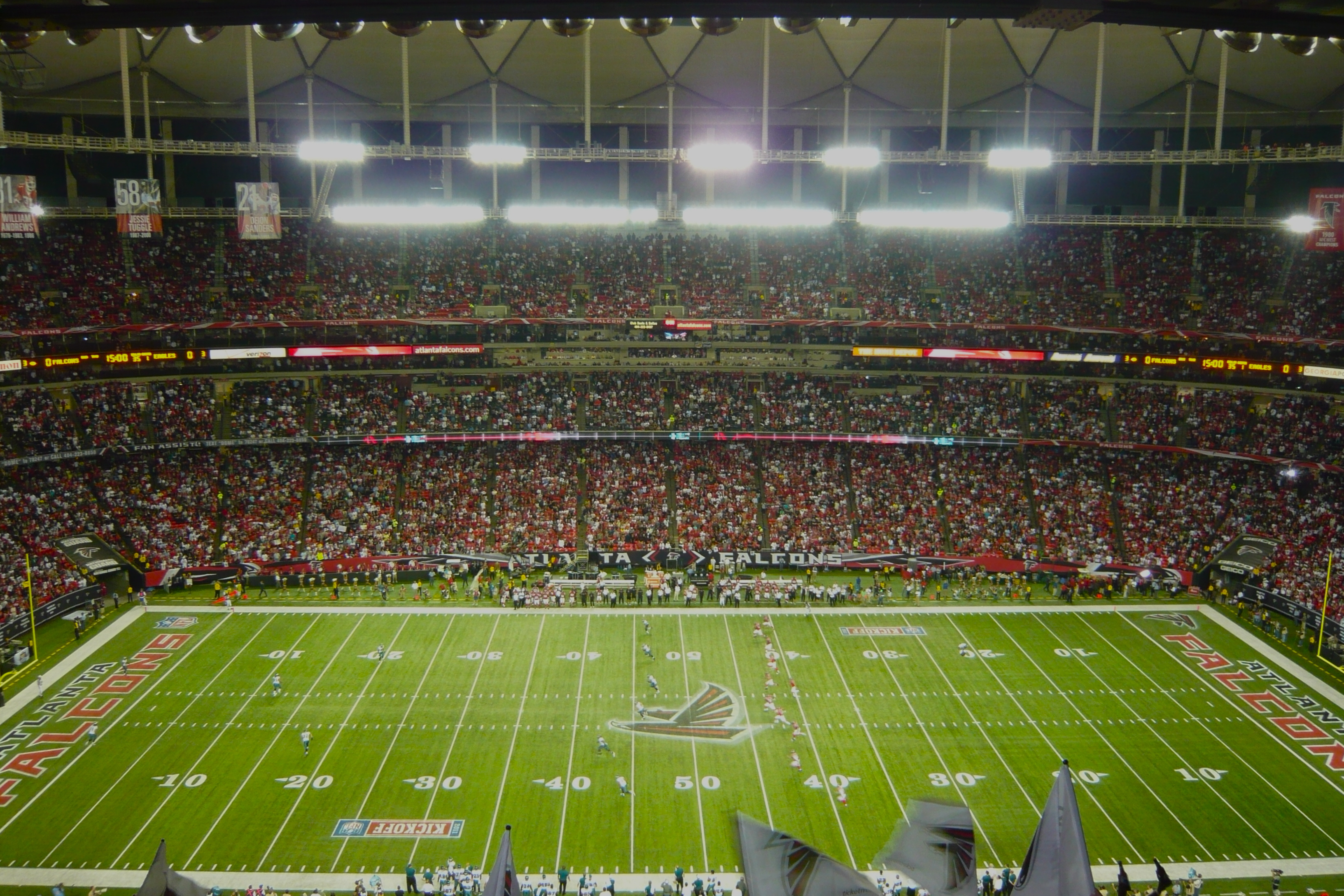 NFL: The Atlanta Falcons kick off to the Philadelphia Eagles at the Georgia Dome on September 18, 2011.